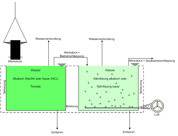 Alkalische Entfettung mit nachgeschaltetem biologischen Spülbad